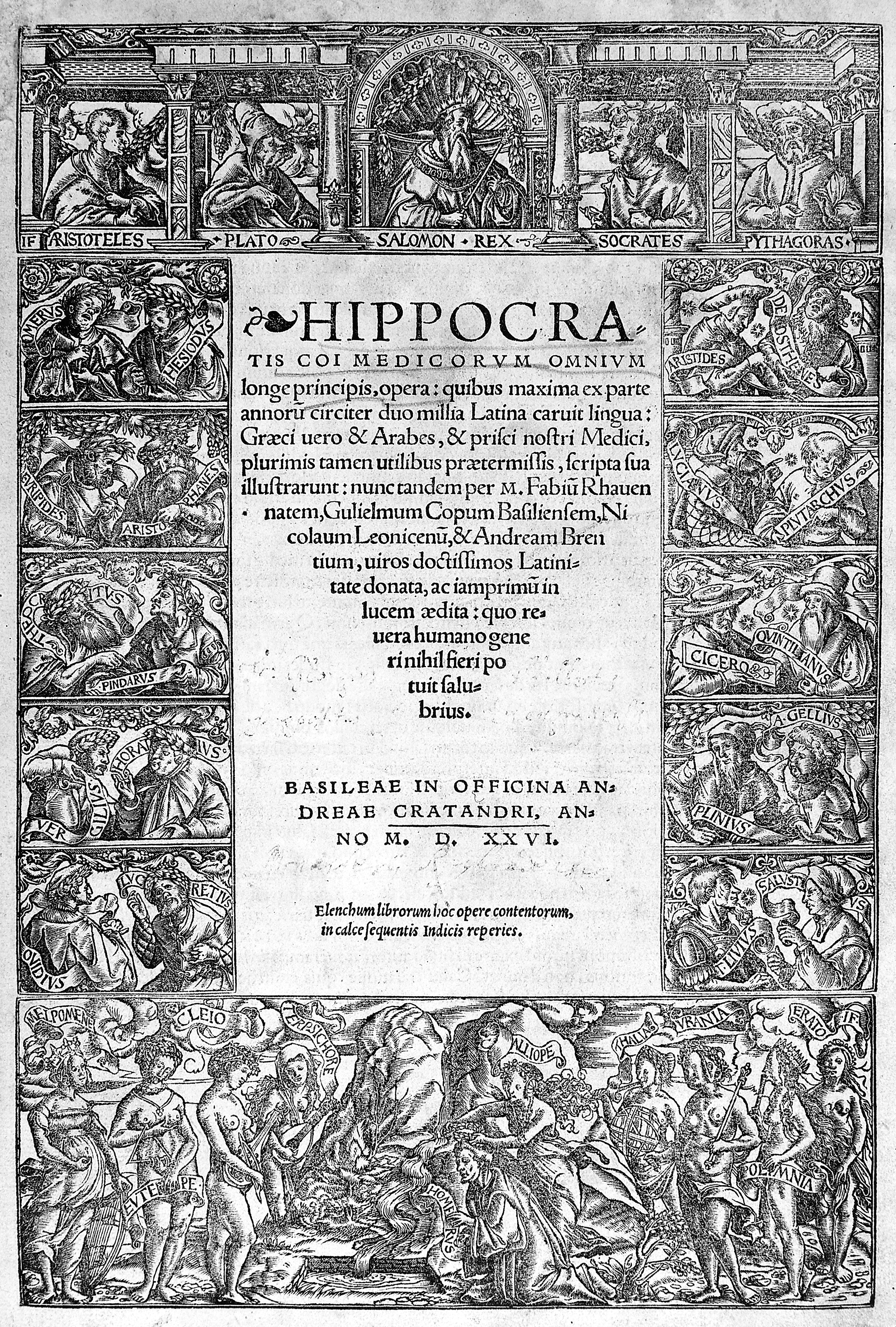 Rare Books Keywords: Hippocrates